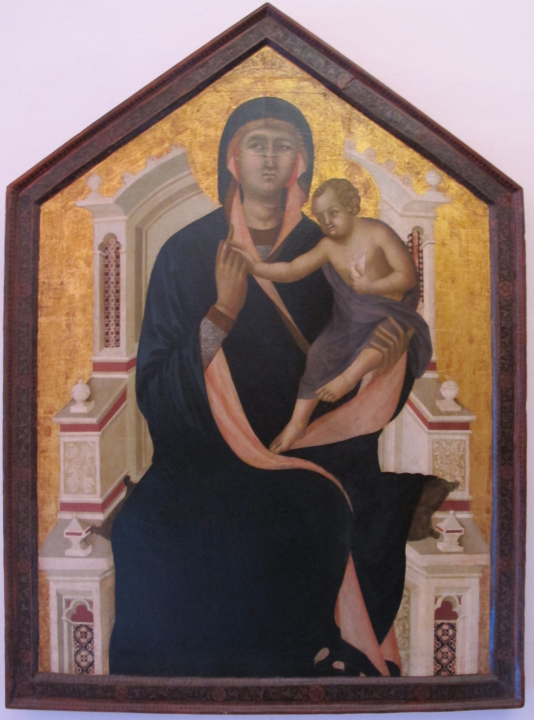 Painting in the National Pinacotheque, Siena